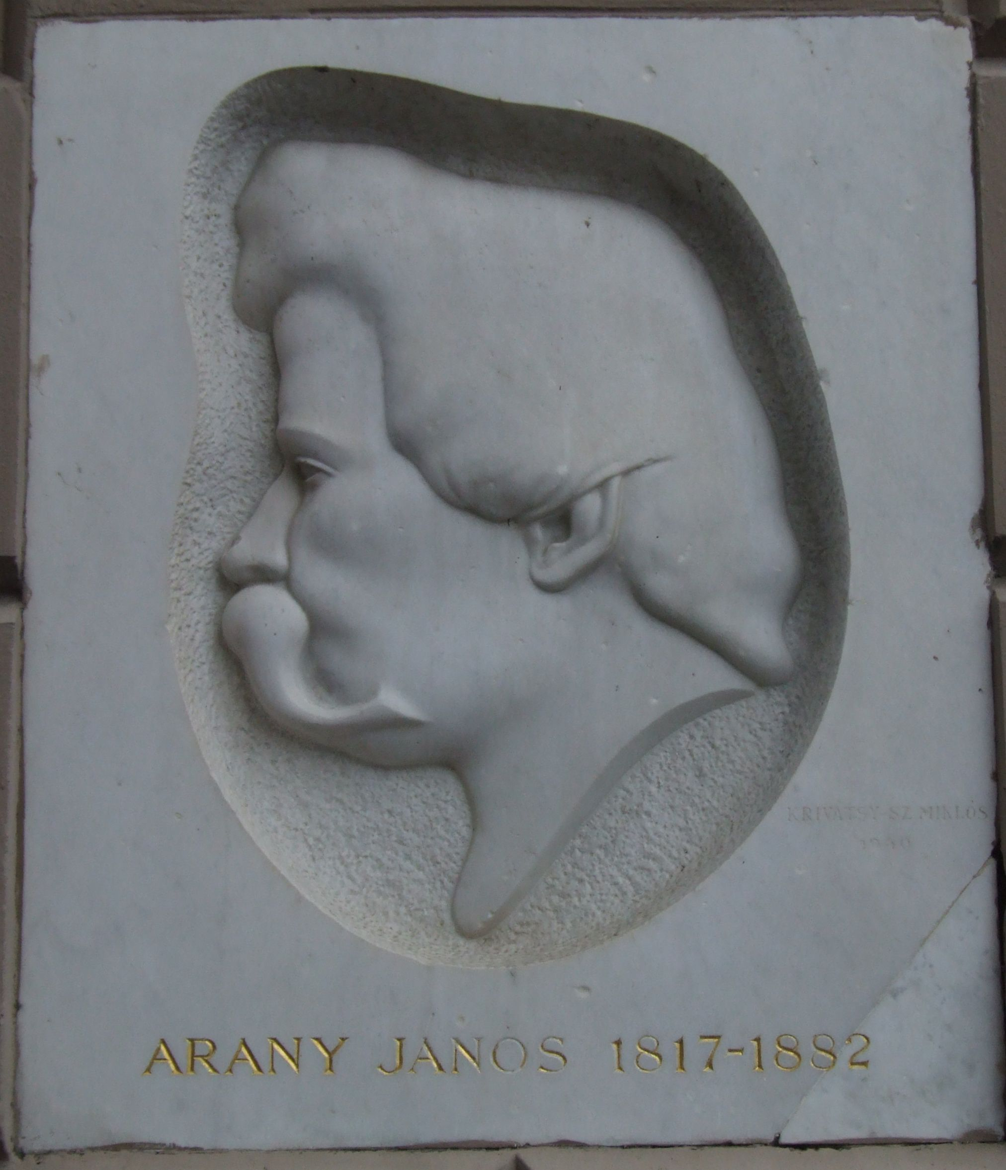 János Arany commemorative plaque in Budapest District V, Arany János Street No 1.